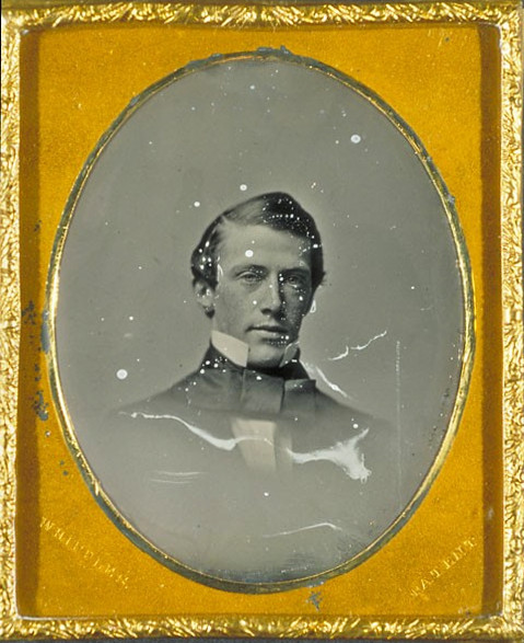 Daguerreotype of Jonathan Dwight by John Adams Whipple, 1852. Courtesy of the Weissman Preservation Center, Harvard University Library.